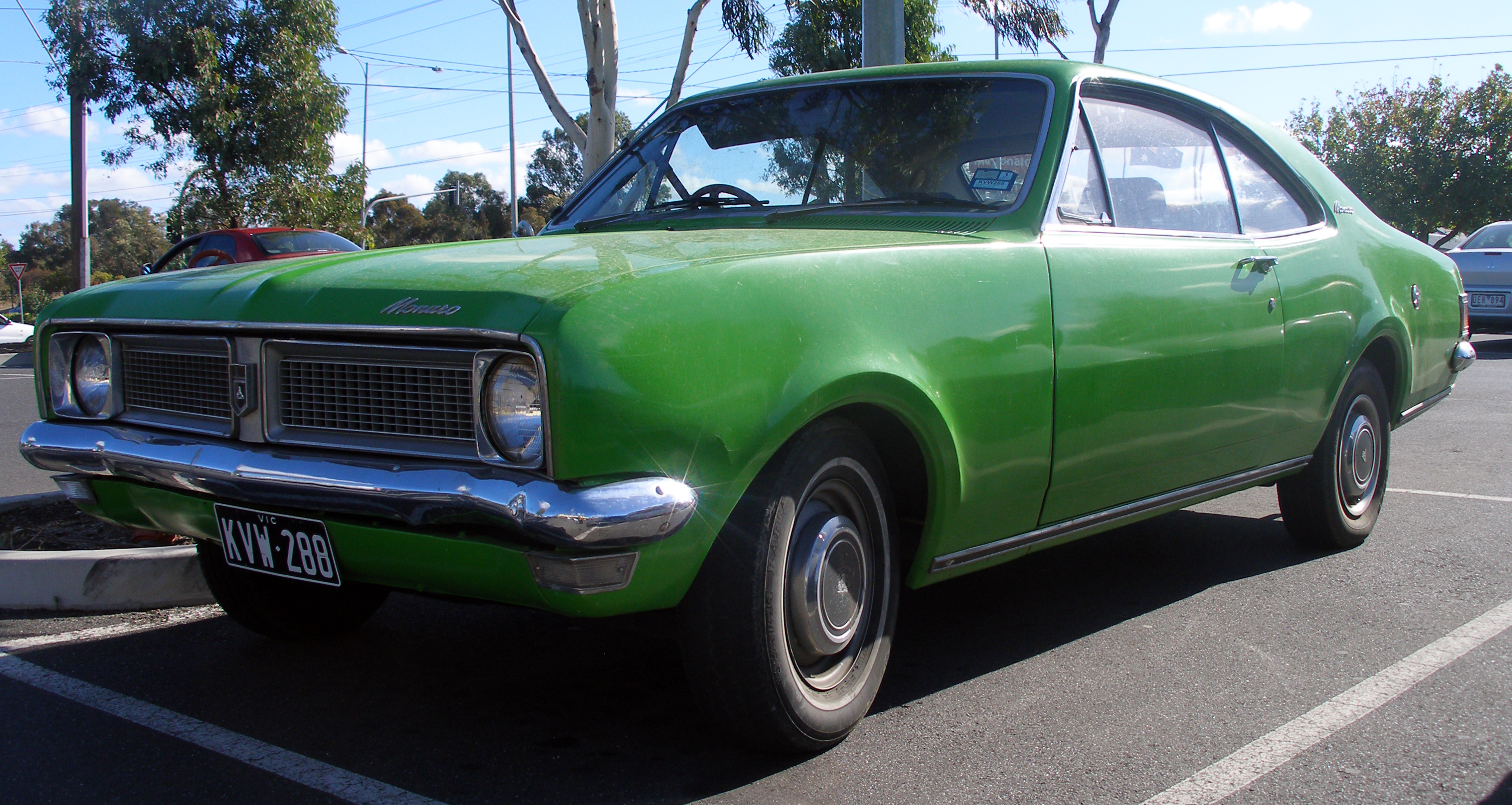 1970–1971 Holden HG Monaro coupe, photographed in Victoria, Australia.